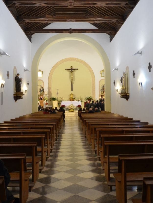 Yegen's church interior.